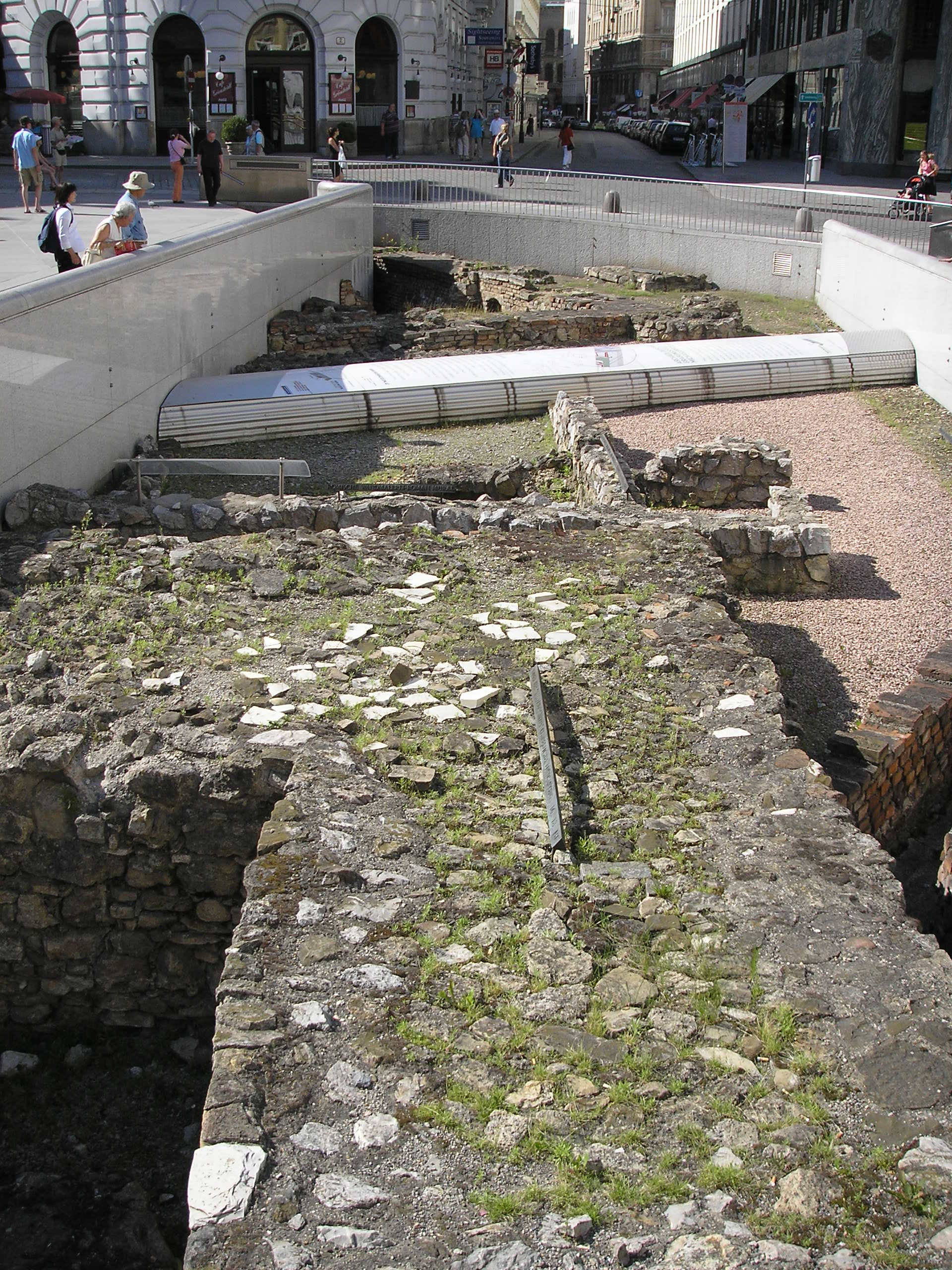 Image of the ruins unearthed at Michaelerplatz in Vienna's first district Innere Stadt.